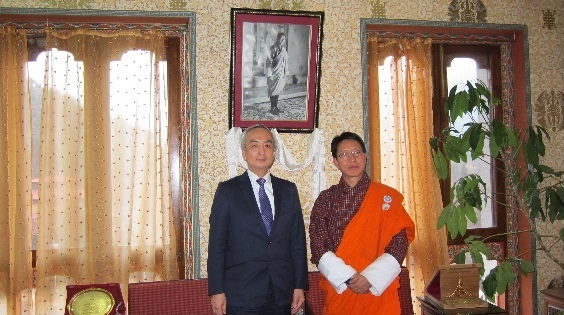 Japanese Ambassador Kenji Hiramatsu's courtesy call on H.E. Lyonpo Damcho Dorji, Minister for Foreign Affairs of Bhutan (February 3, 2016)